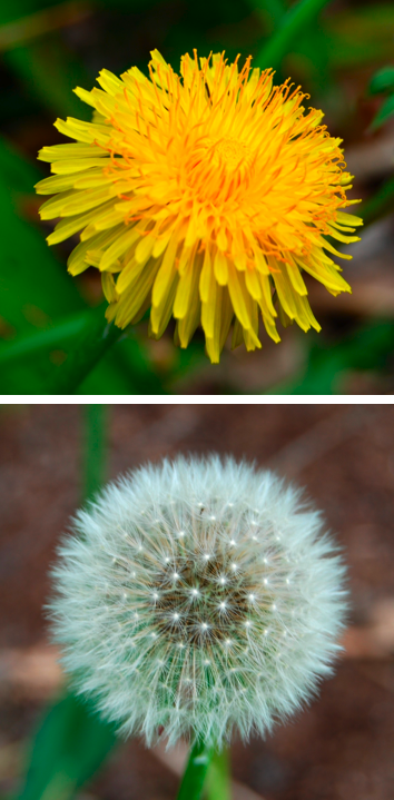 Comparison of the yellow flower and parachute ball of a common dandelion, a week; these samples found in upstate New York.